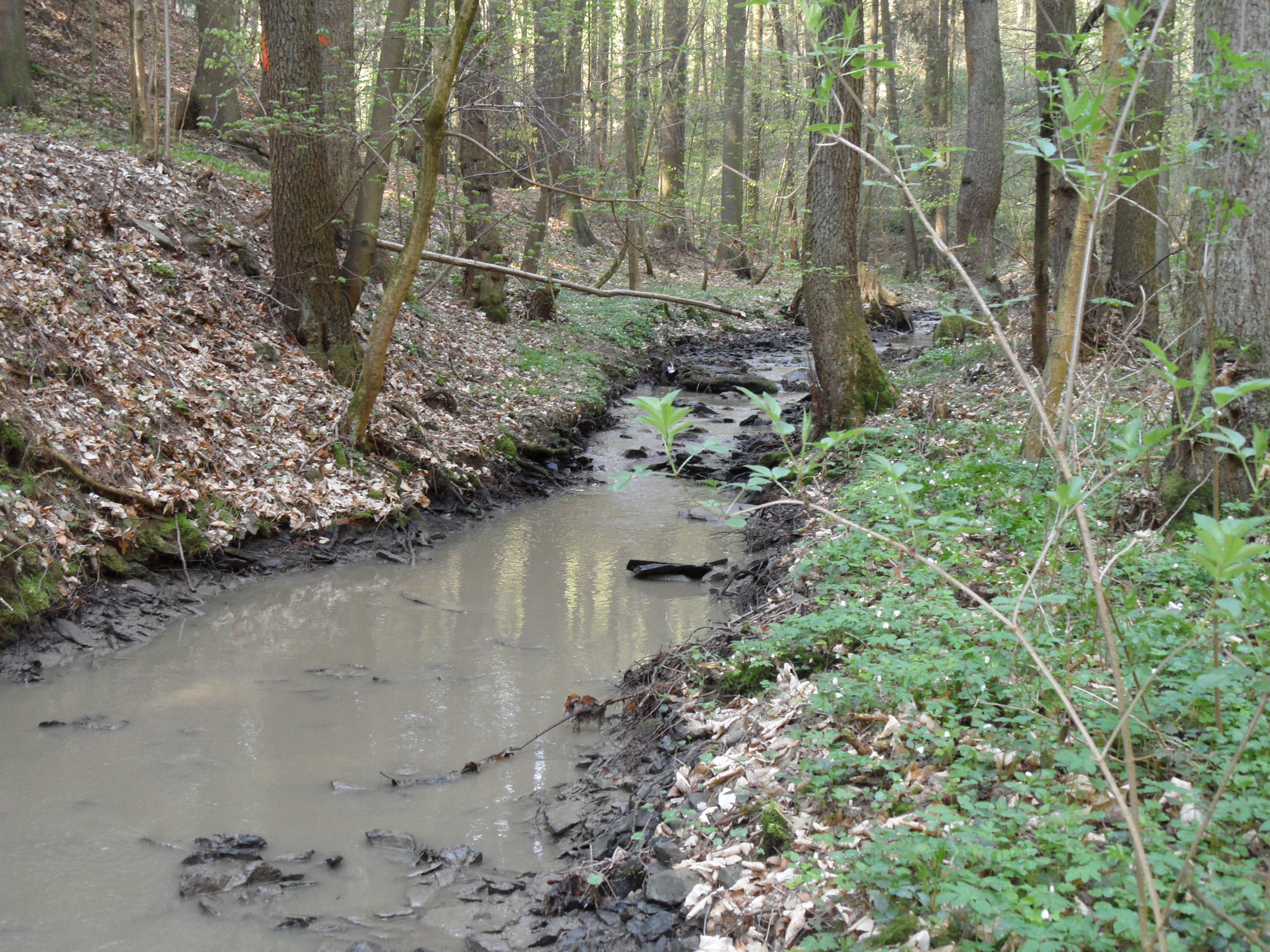 Medenický potok I1. Deep Valley between Lomec and Třebonín, Kutná Hora District, the Czech Republic.